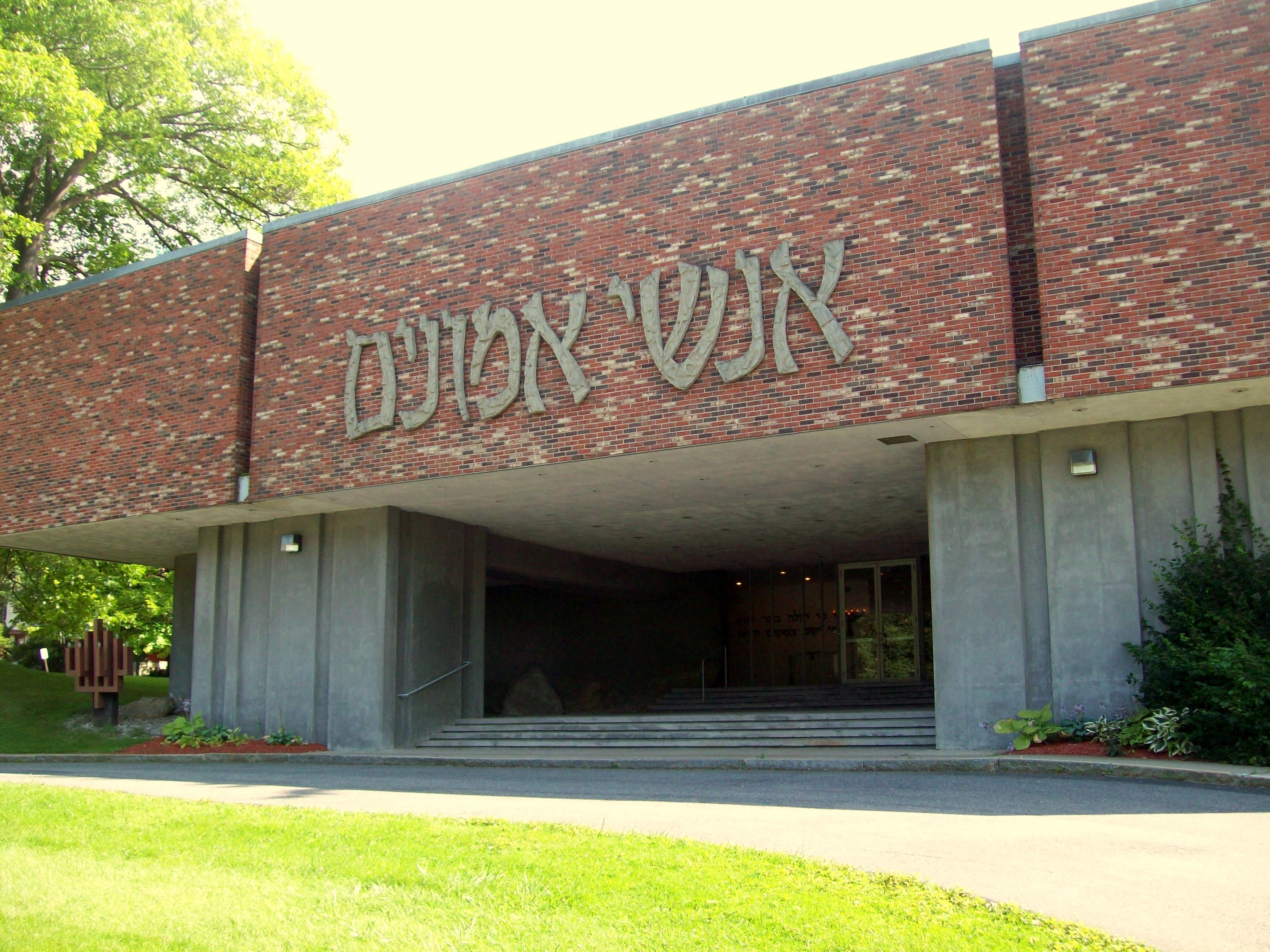 Facade of Temple Anshe Amunim, in Pittsfield, Massachusetts.